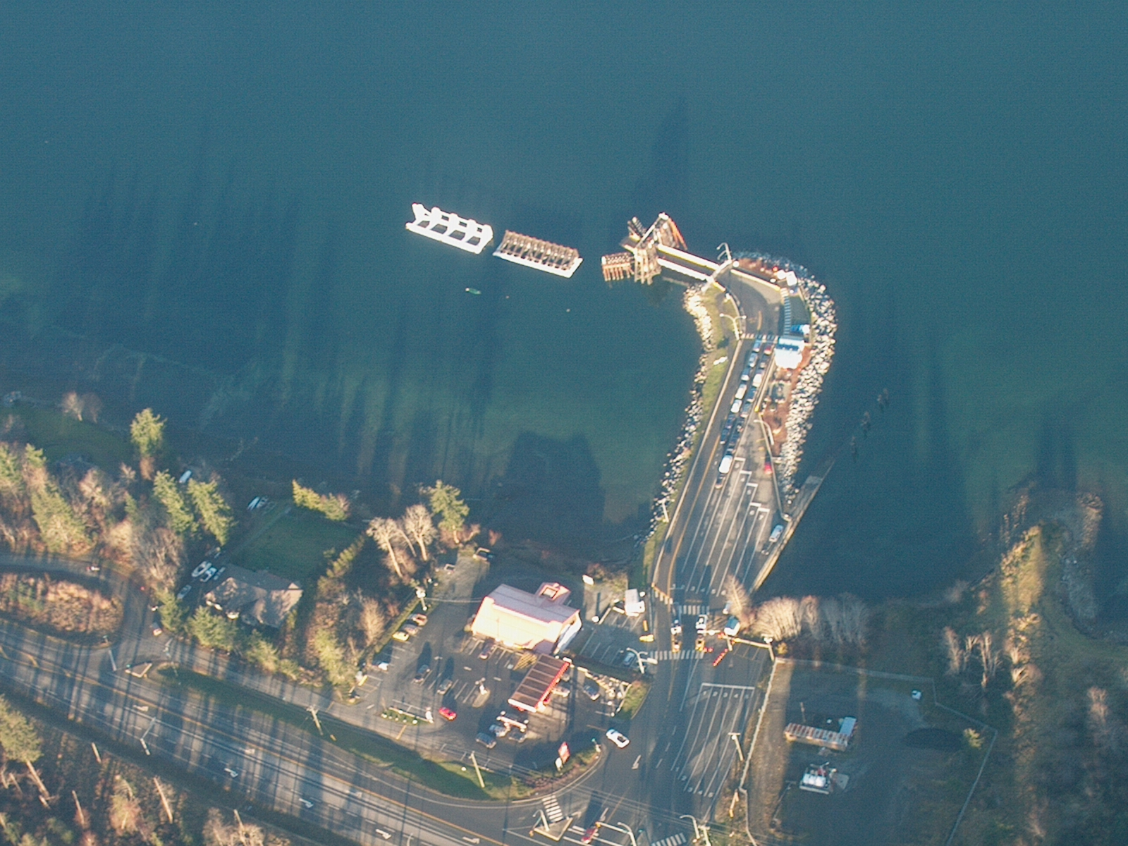 Aerial photograph I took myself of the Buckley Bay on Vancouver Island to Denman Island on December 27, 2004 showing the ferry terminal for the crossing of Baynes Sound to Denman Island